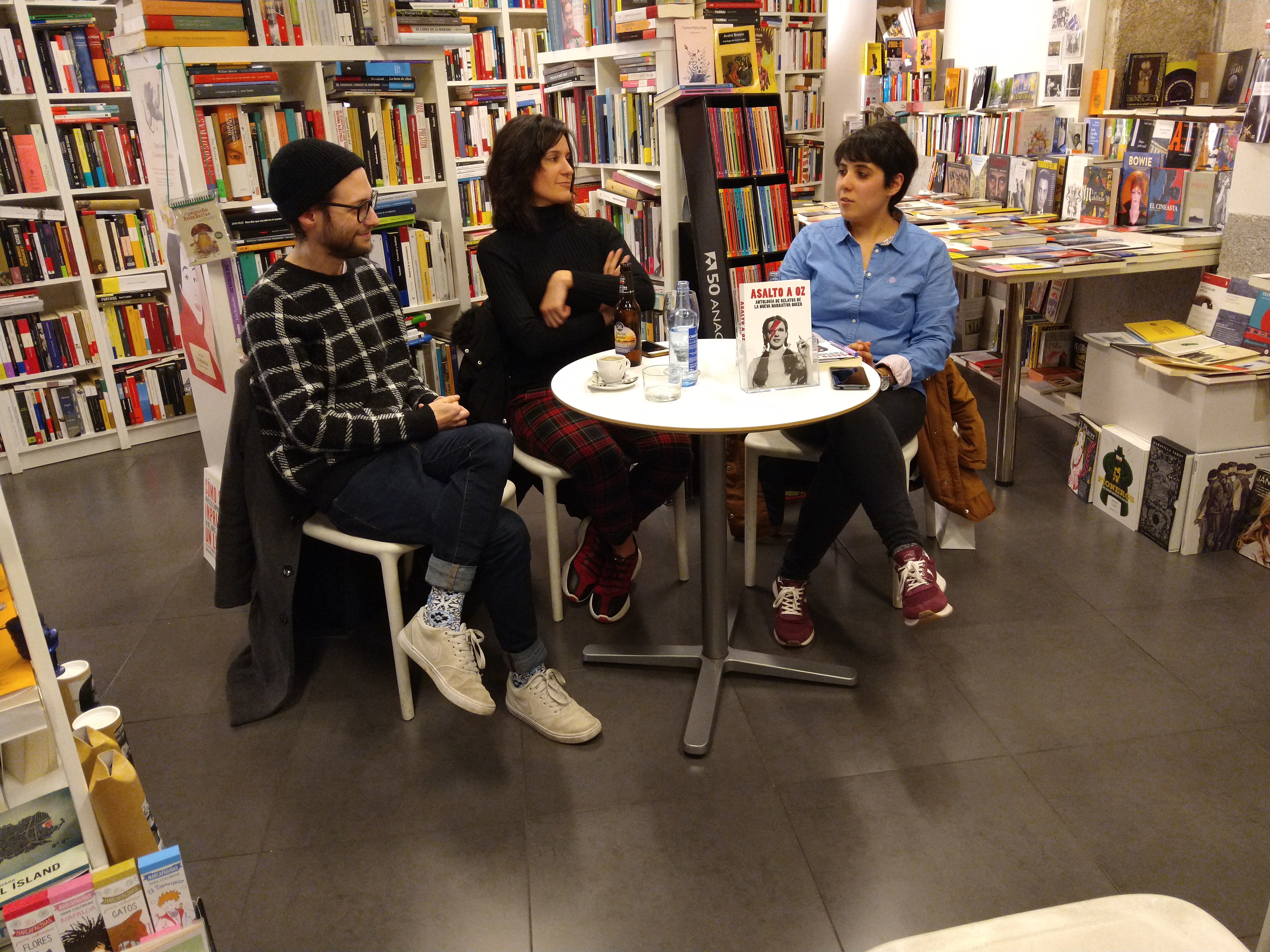 From left to the right, Álvaro Domínguez, Bárbara González Vilariño and Miriam Beizana Vigo. Picture taken during the presentation of the book Asalto a Oz (Ed. Dos Bigotes), in the bookshop Librería Berbiriana, in A Coruña (Spain).